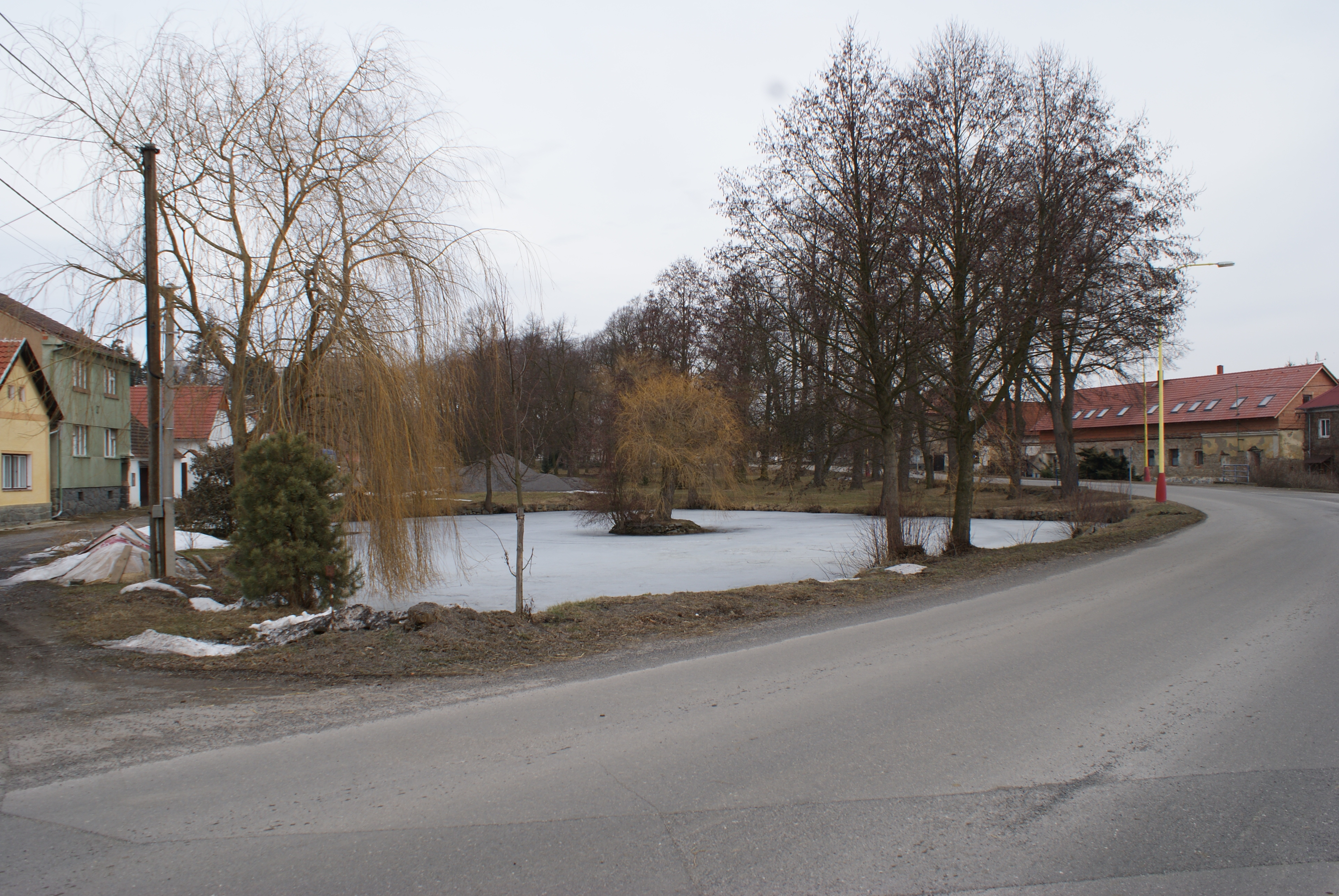 Zalužany, Příbram District, Czech Republic, the village commons